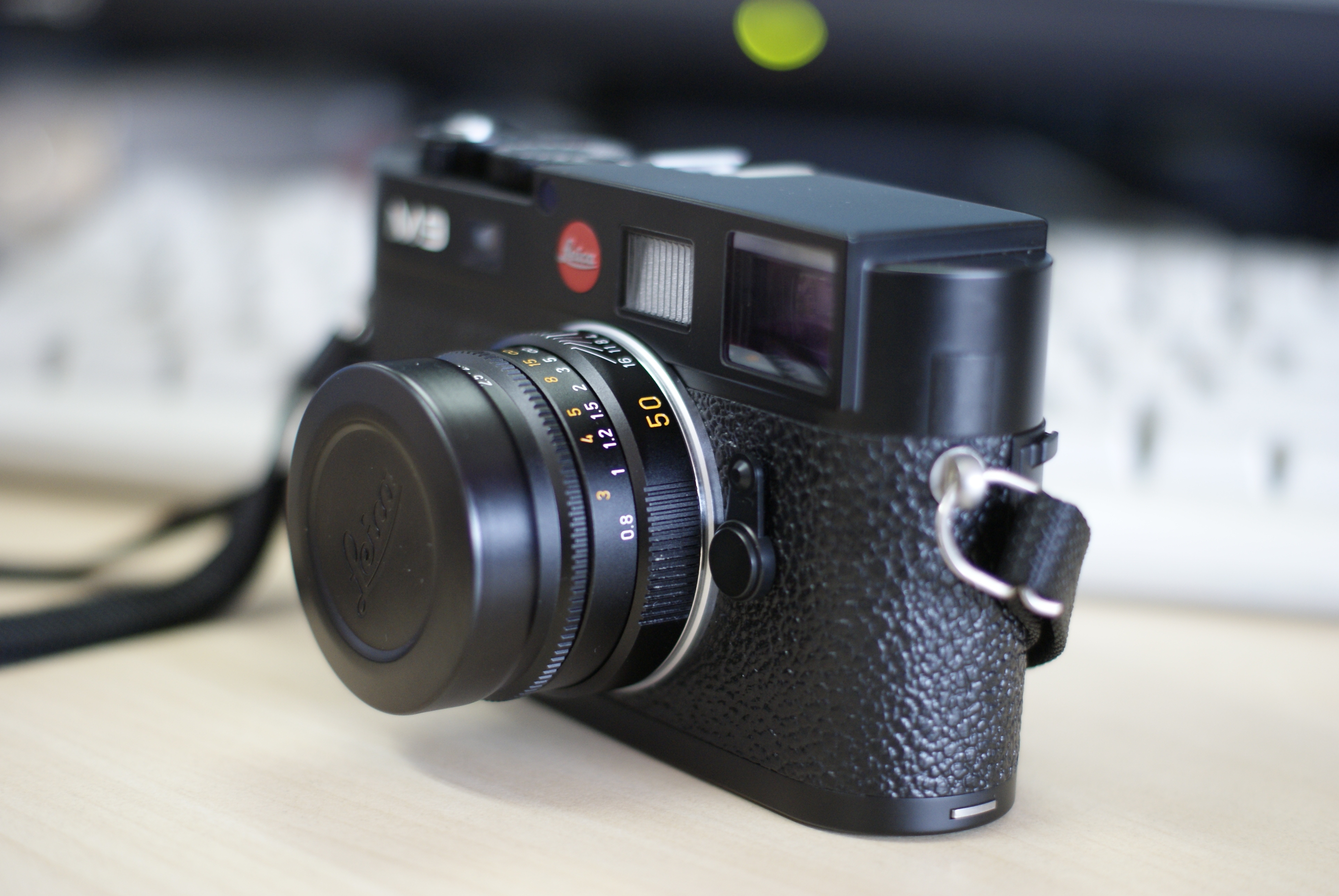 Leica M9 digital rangefinder camera